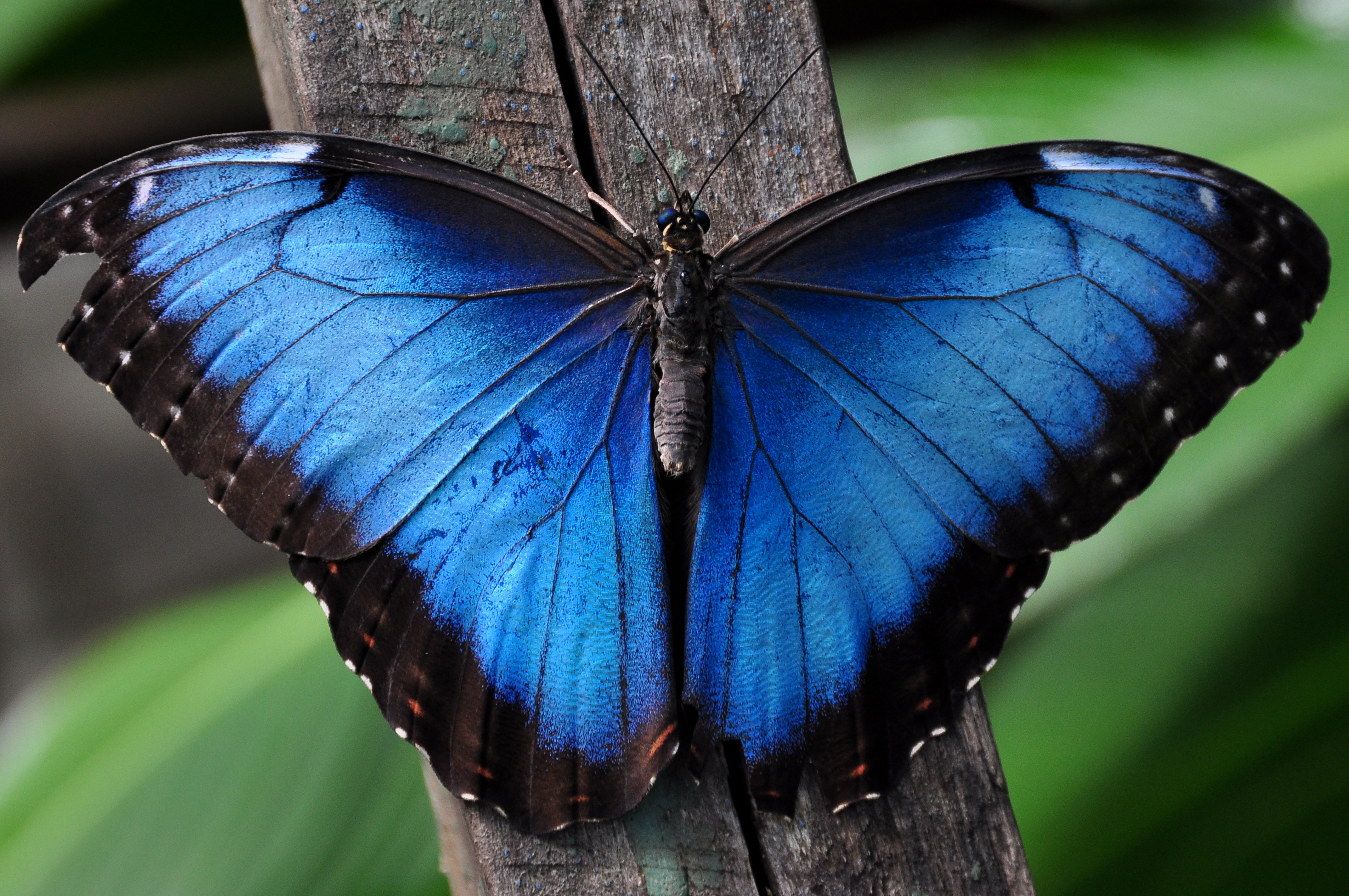 A Morpho menelaus while resting.